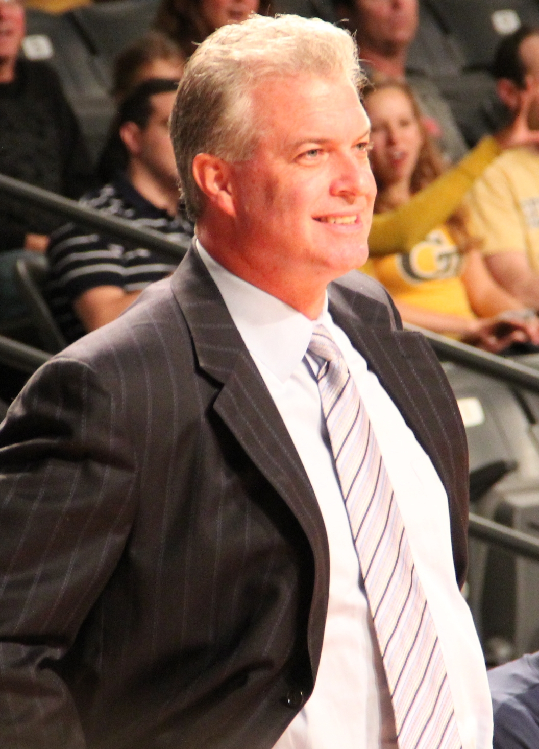 UNC Wilmington Seahawks men's basketball coach Buzz Peterson